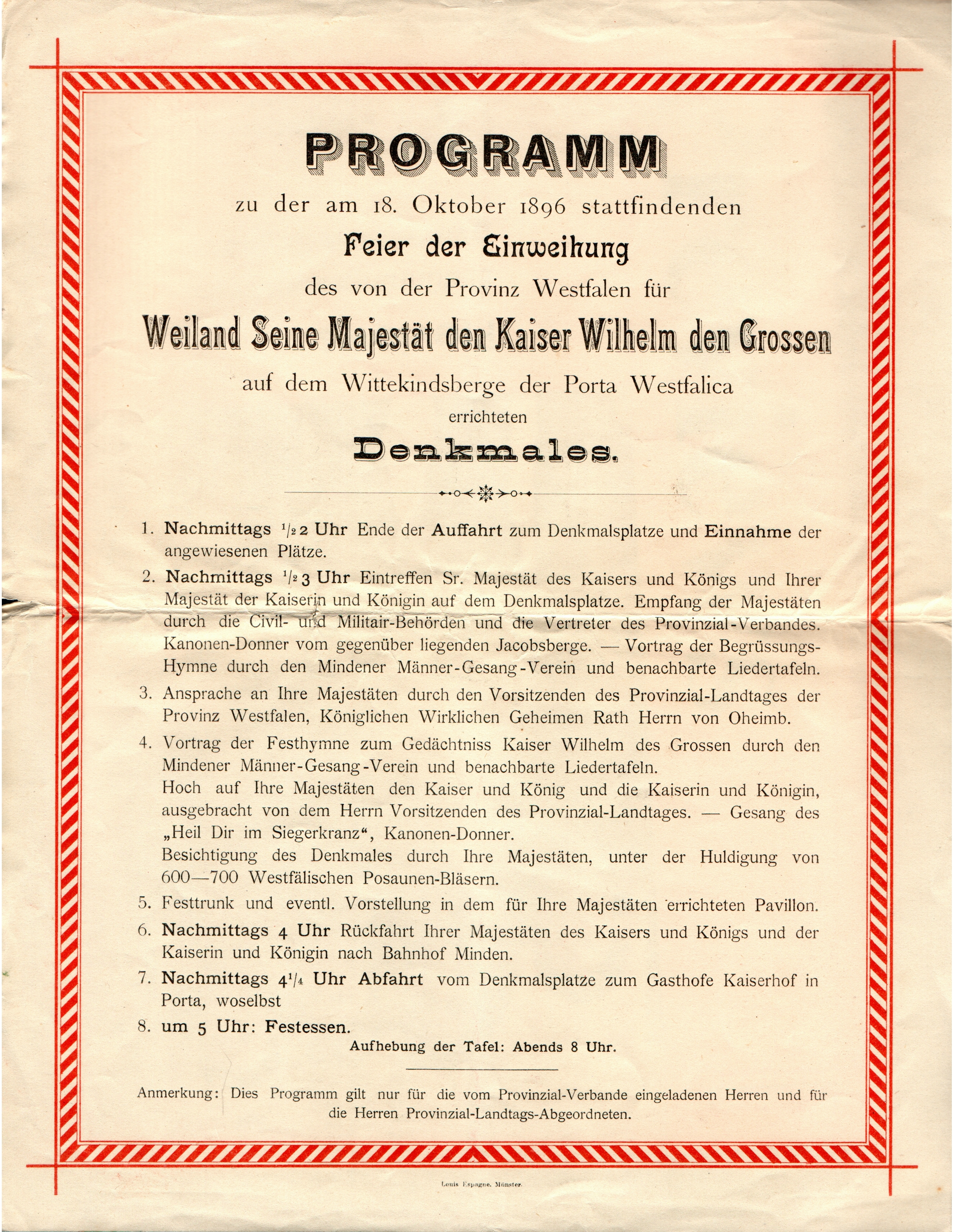 Program of the inauguration ceremony of the Emperor William Monument, in Porta Westfalica, Germany on 18 October 1896.